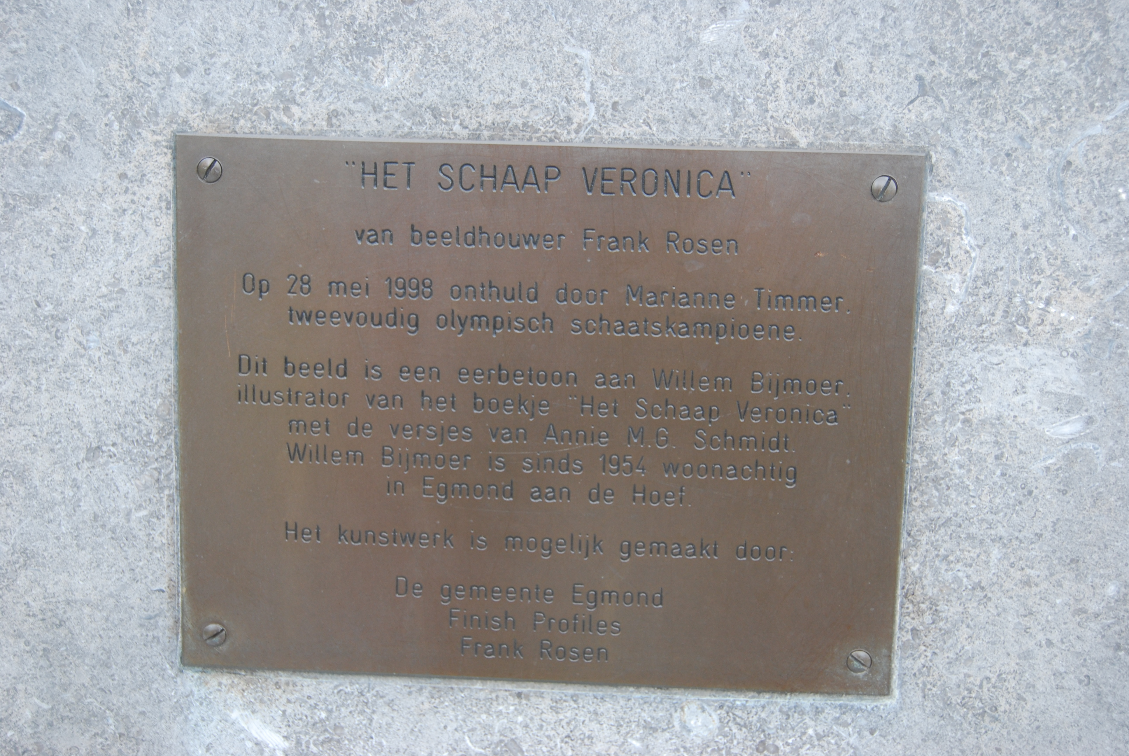 Inscription Sculpture Schaap Veronica by Frank Rosen. Location: Egmond aan den Hoef, The Netherlands. The sculpture is in honour of Wim Bijmoer, illustrator of the poetry of Annie M.G. Schmidt about the fictitious scheep Veronica.